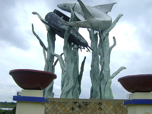 Bandeng-Lele Monument, Lamongan, East Java, Indonesia